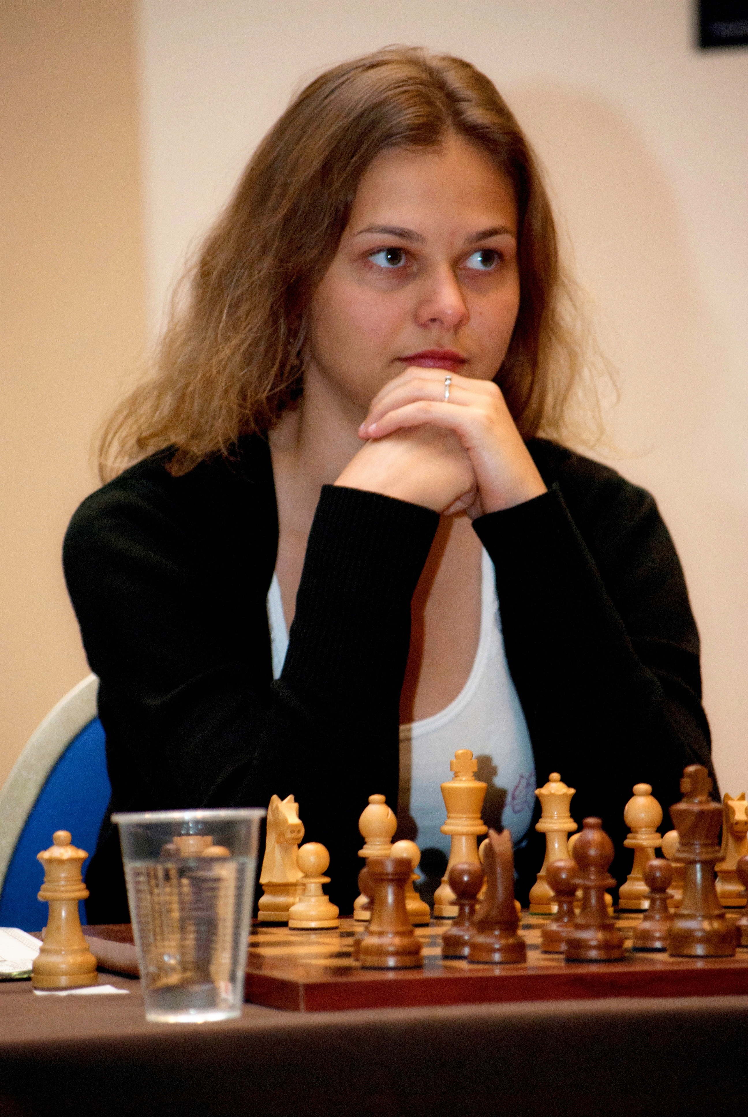 IM Anns Muzychuk, Porto Carras EchT 2011.